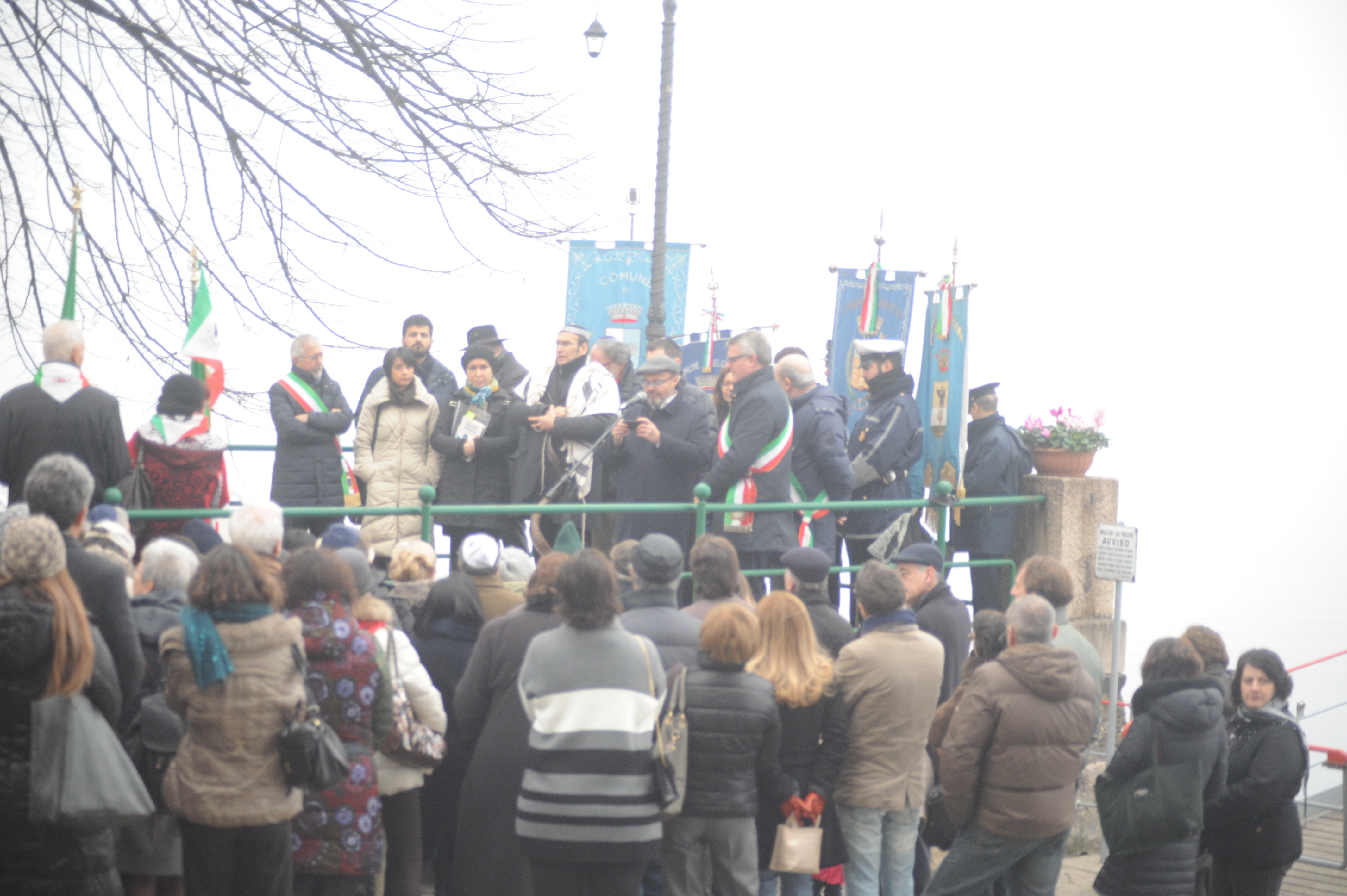 Stolperteine's celebration